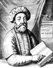 Shabbatai Tzvi, from Thomas Coenen, Ydele Verwachtinge der Joden, Amsterdam 1669. According to Gershom Scholem's biograpby of Sevi, this is his only portrait known. Coenen relates that it was sketched in Smyrna in 1665 by a Christian who saw Sevi and immediately went home to do the portrait. This reproduction was published in the 1901-1906 Jewish Encyclopedia, now in the public domain. [1]